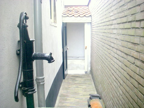 Old toilet in Spijkenisse Holland behind the vegetable shop of tame in Spijkenisse